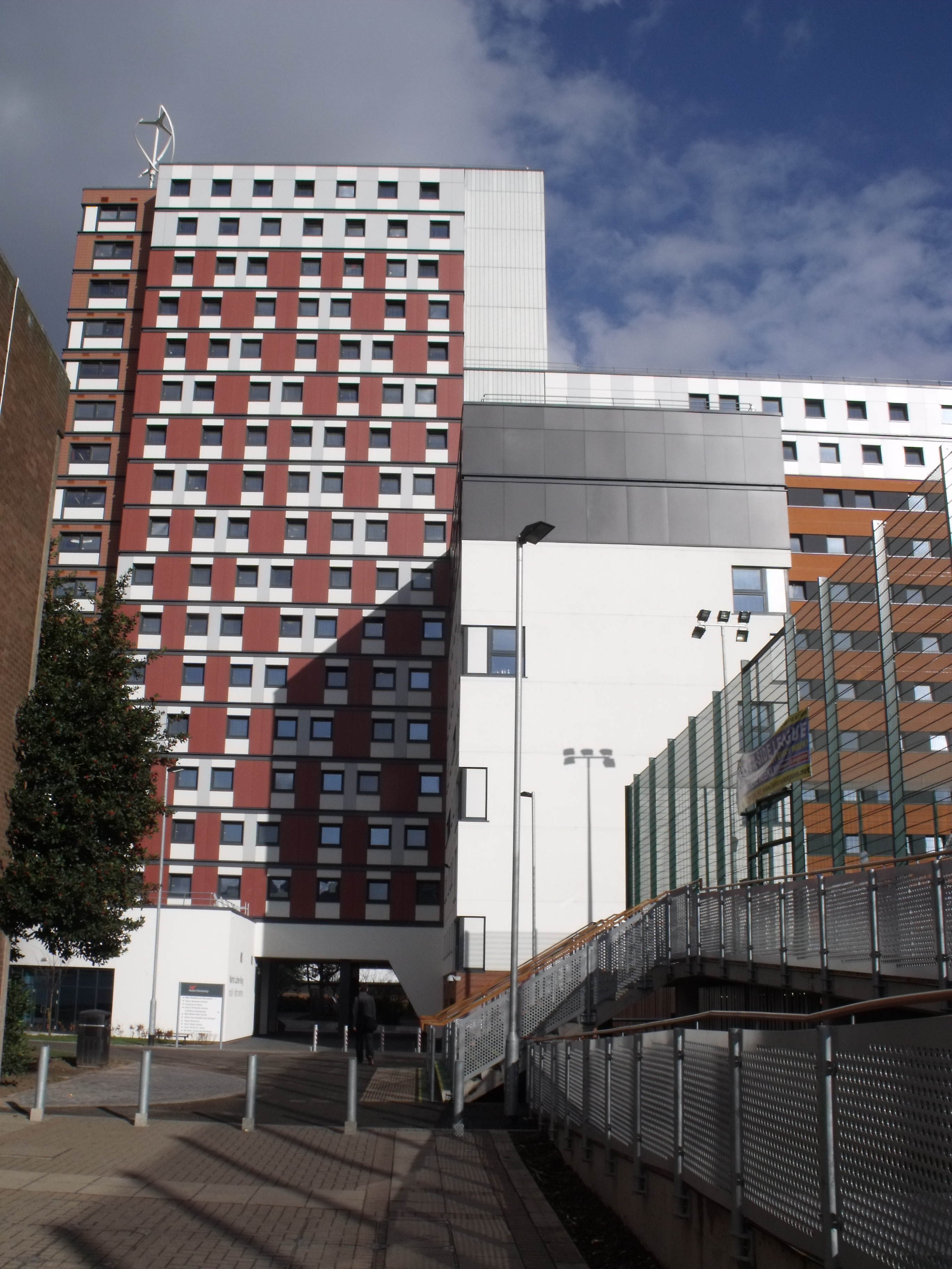 New shots of the completed Aston University Student Accommodation Phase I, on a quiet Saturday. The main tower block - with the football pitch on the right. William Murdoch and James Watt Residences